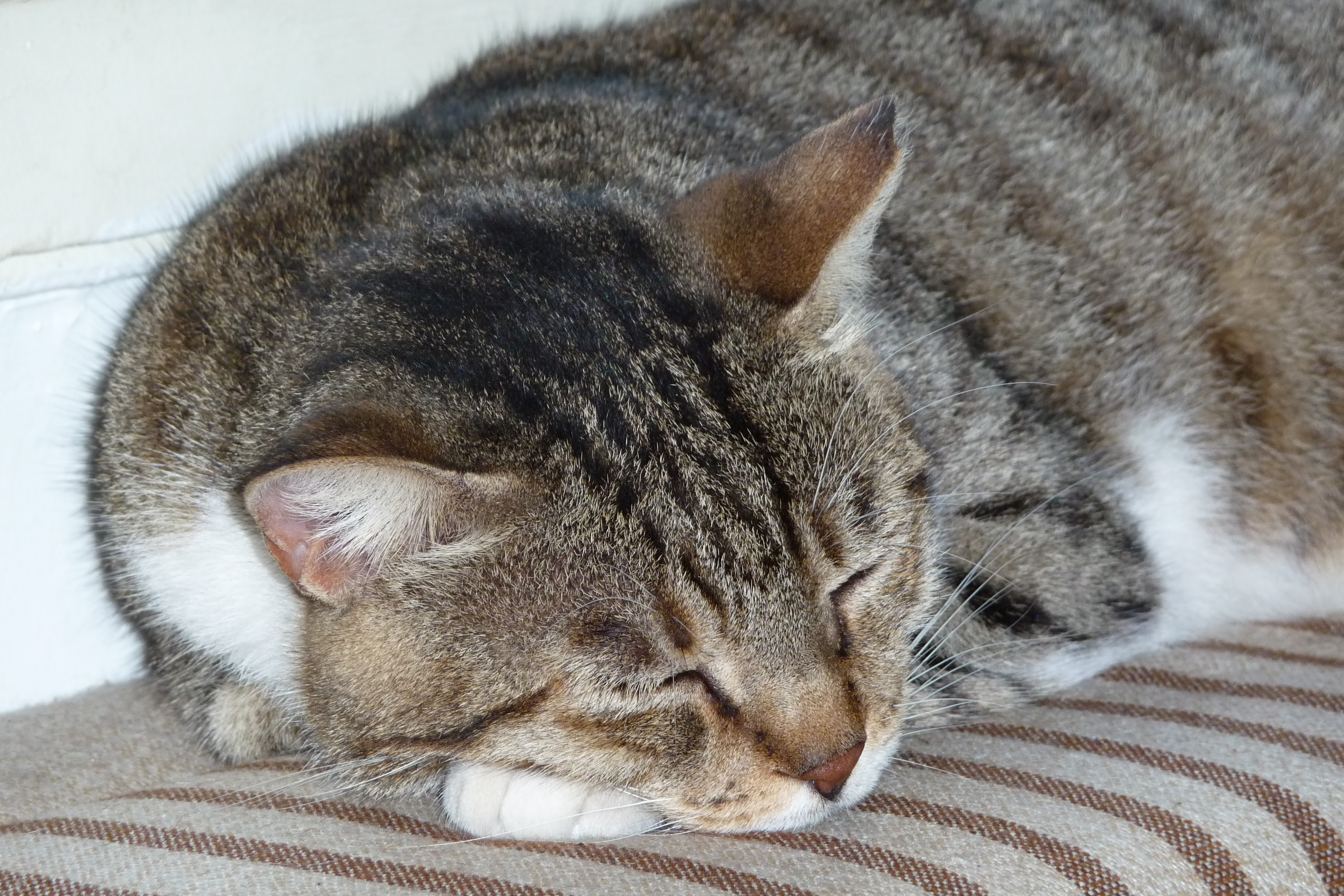 Beit Oren is a kibbutz in northern Israel. It falls under the jurisdiction of Hof HaCarmel Regional Council.